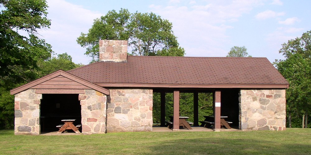 VCC-built picnic shelter, Monson Lake State Park, MN, USA